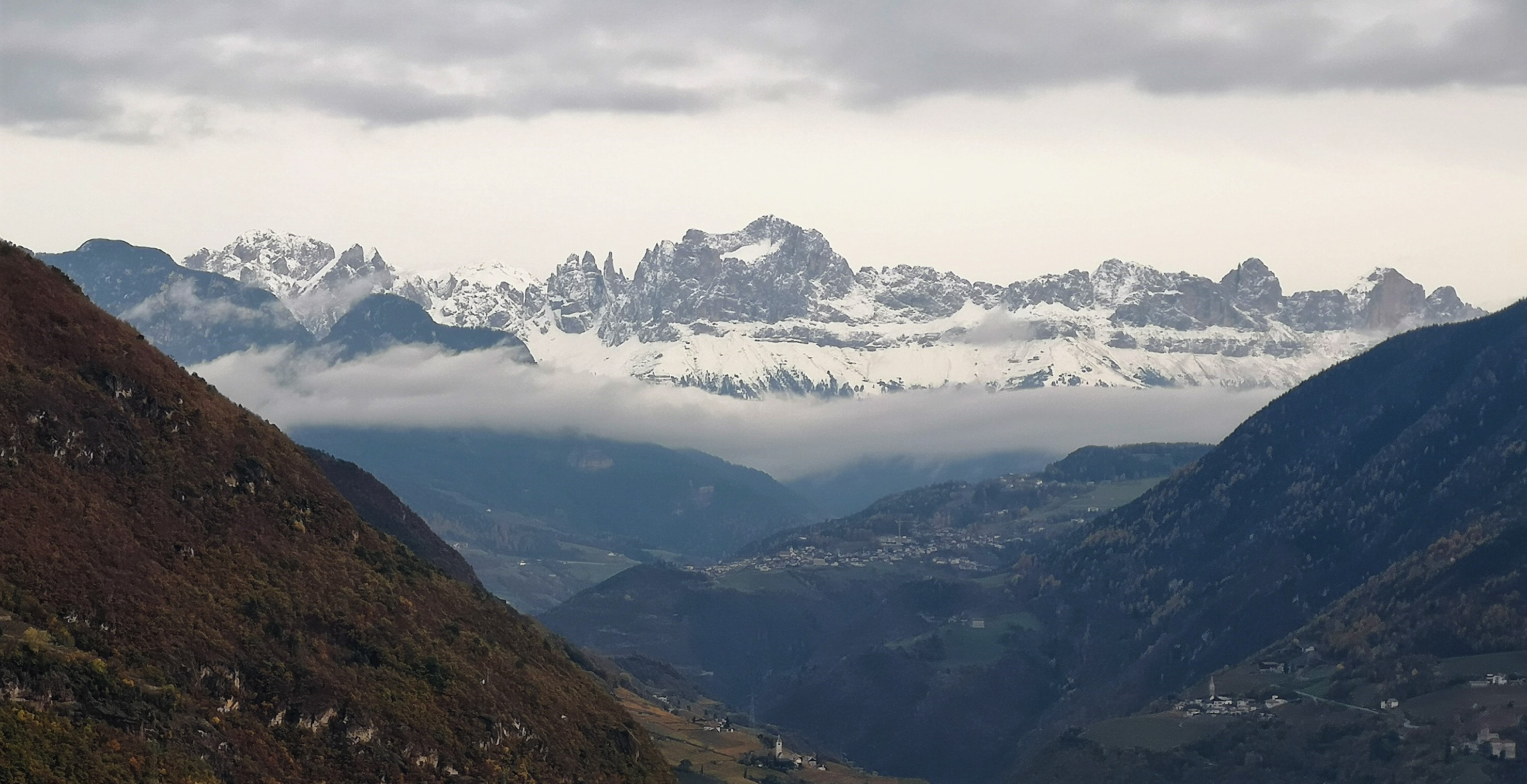 The Rosengarten mountains in South Tyrol Nov 2018